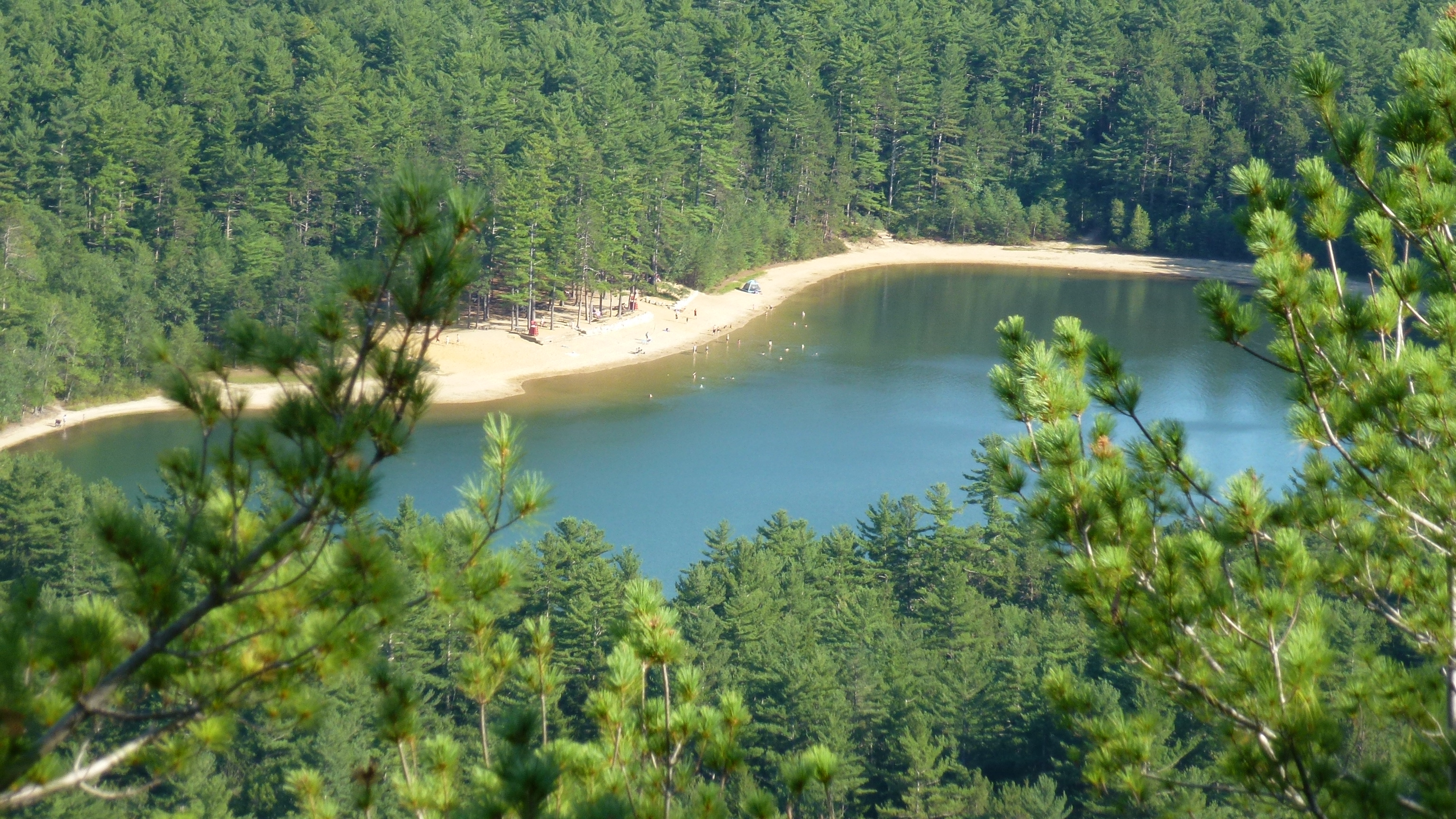 View of Echo Lake from Cathedral Ledge in North Conway, NH looking SE and below